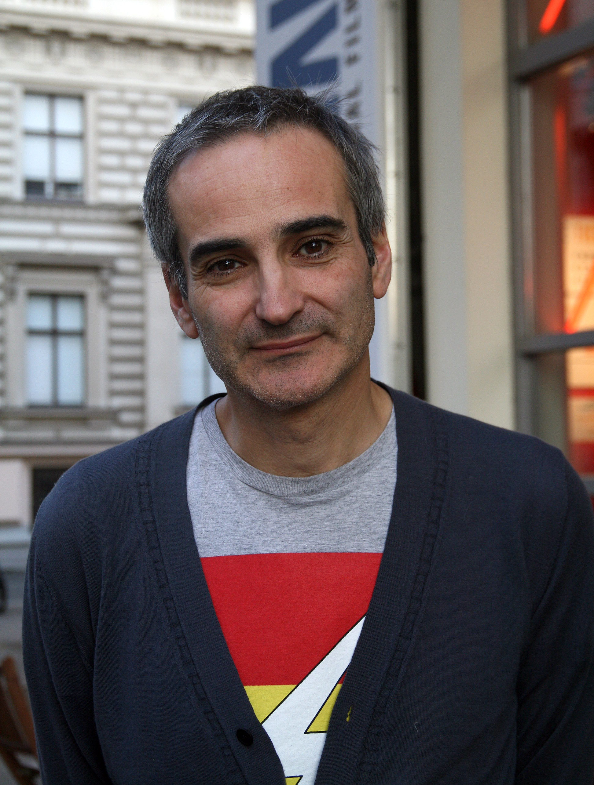 Film director Olivier Assayas at the screening of the 5 hour movie version of his film Carlos during the Vienna International Film Festival 2010.